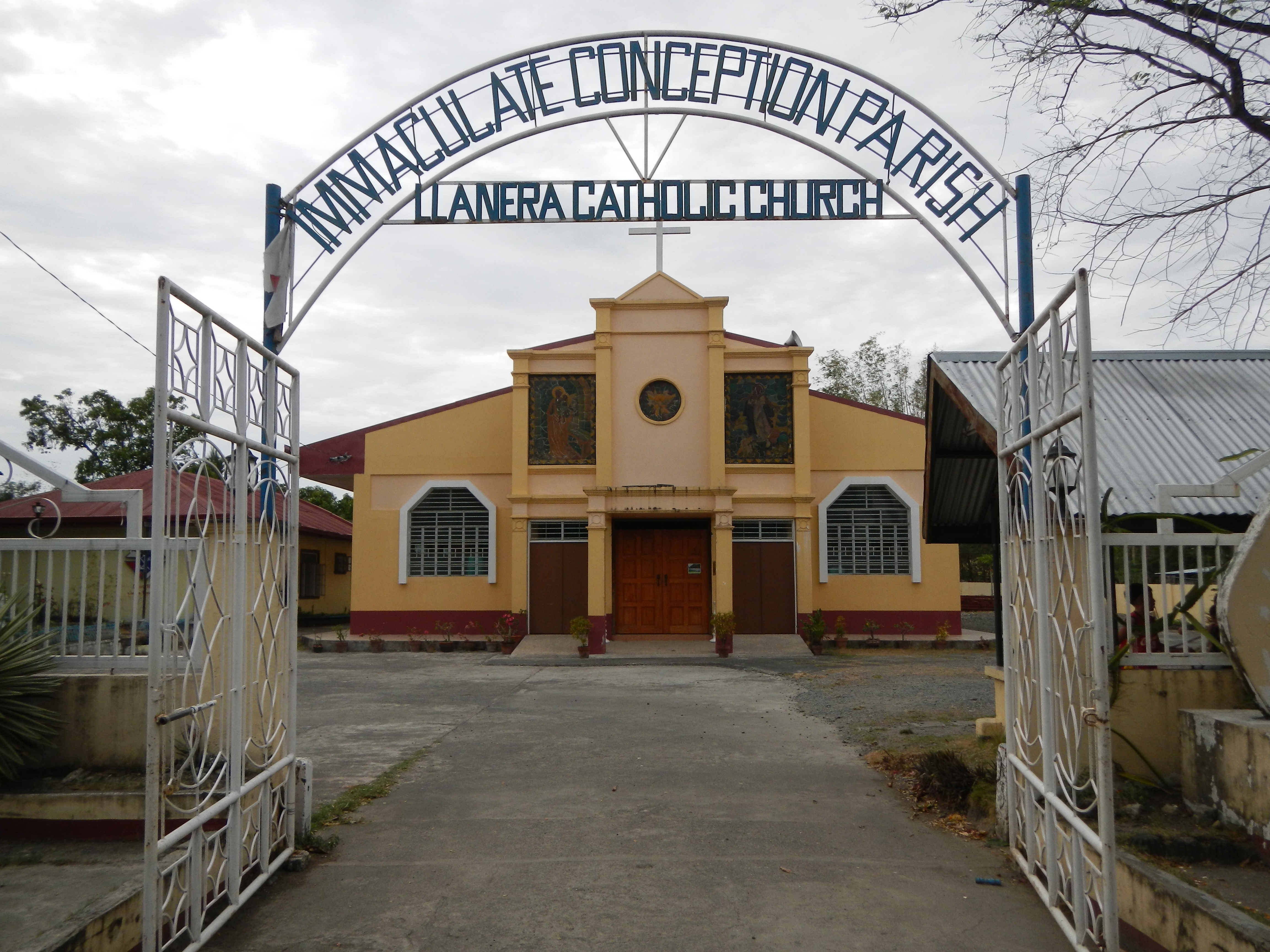 1965 Immaculate Conception Parish Church of Llanera, Titular: Immaculate Conception Current Parish Priest: Father Michael Grospe Llanera, Nueva Ecija[1], Philippines Dialect: Tagalog, Ilocano Population: 31,644 Catholics: 0.6% Vicariate of St. Joseph [2] [3][4] [5]The Roman Catholic Diocese of San Jose in the Philippines (Lat: Dioecesis Sancti Iosephi in Insulis Philippinis) is an ecclesiastical territory or diocese of the Latin Rite of the Roman Catholic Church in the Philippines.[6]